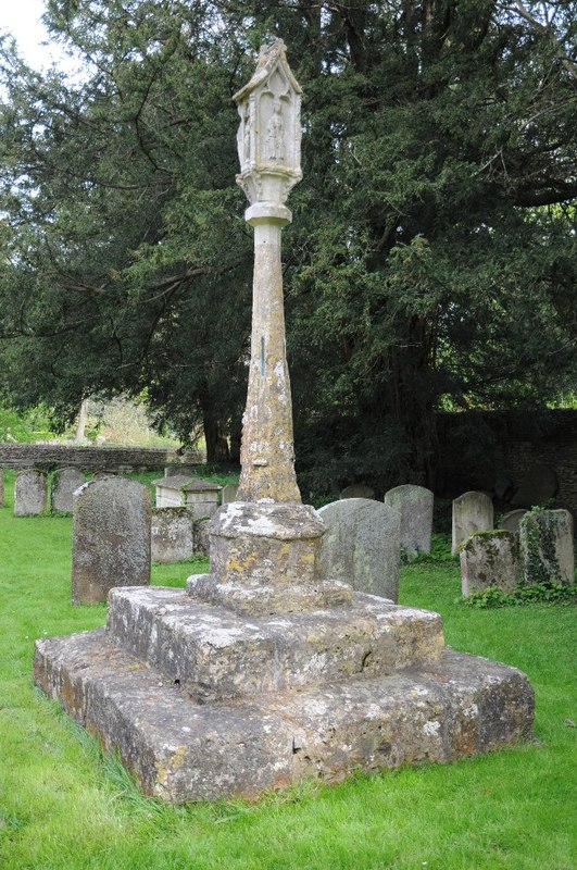 Cross in Ampney Crucis churchyard